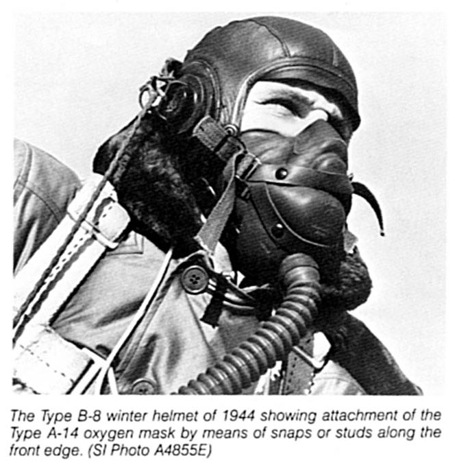 A-9 oxygen mask with B-6 winter helmet, WW2 vintage